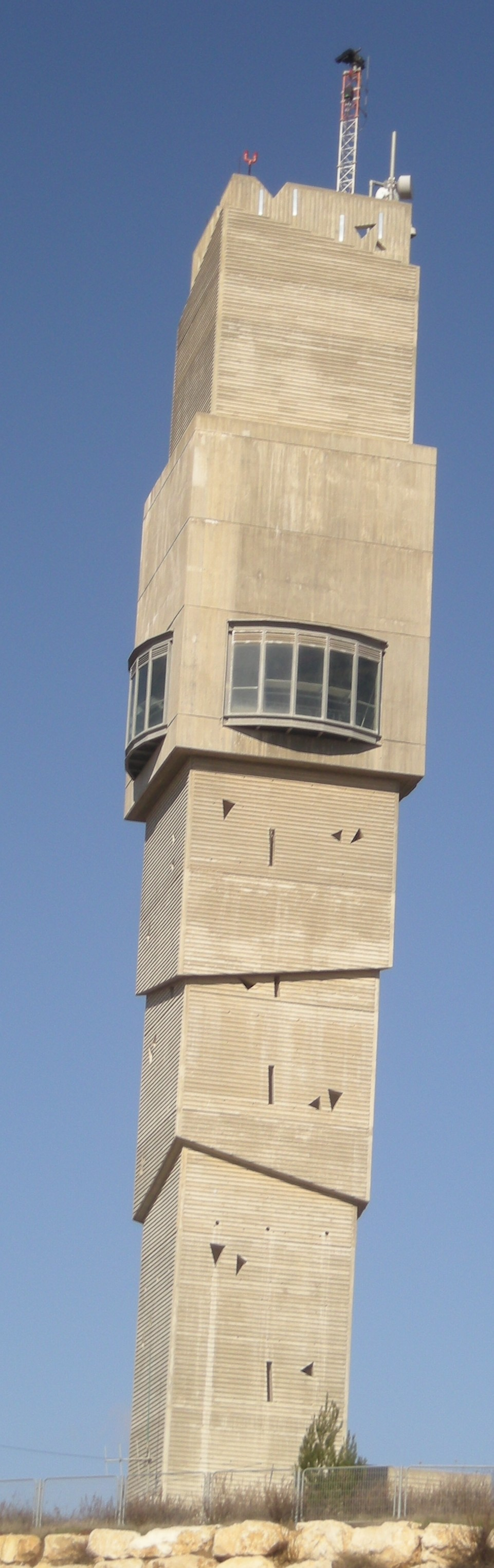 Water tower of Mevaseret Zion